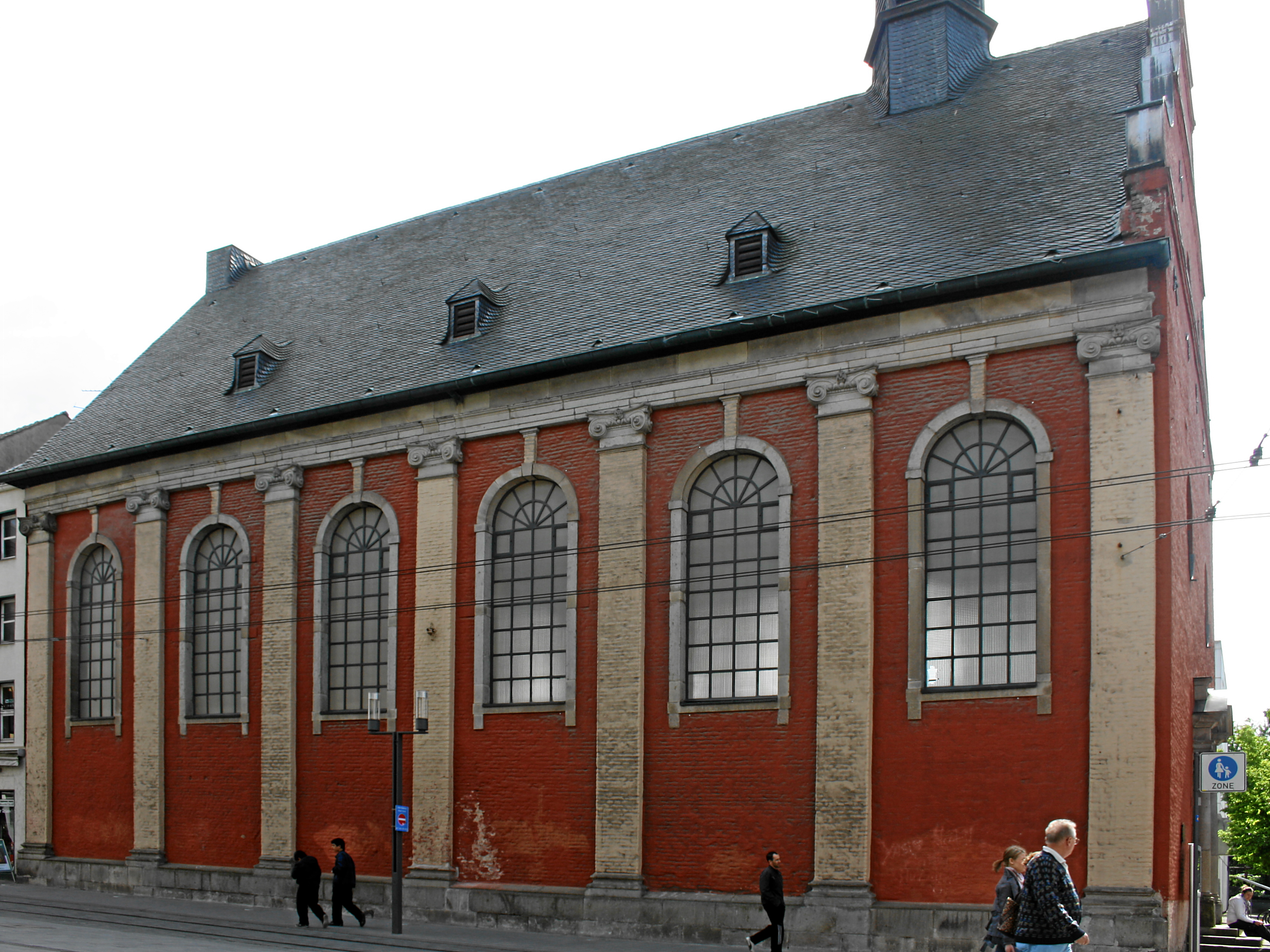 Neuss, Germany. Roman-catholic church Saint Sebastianus, exterior from North.